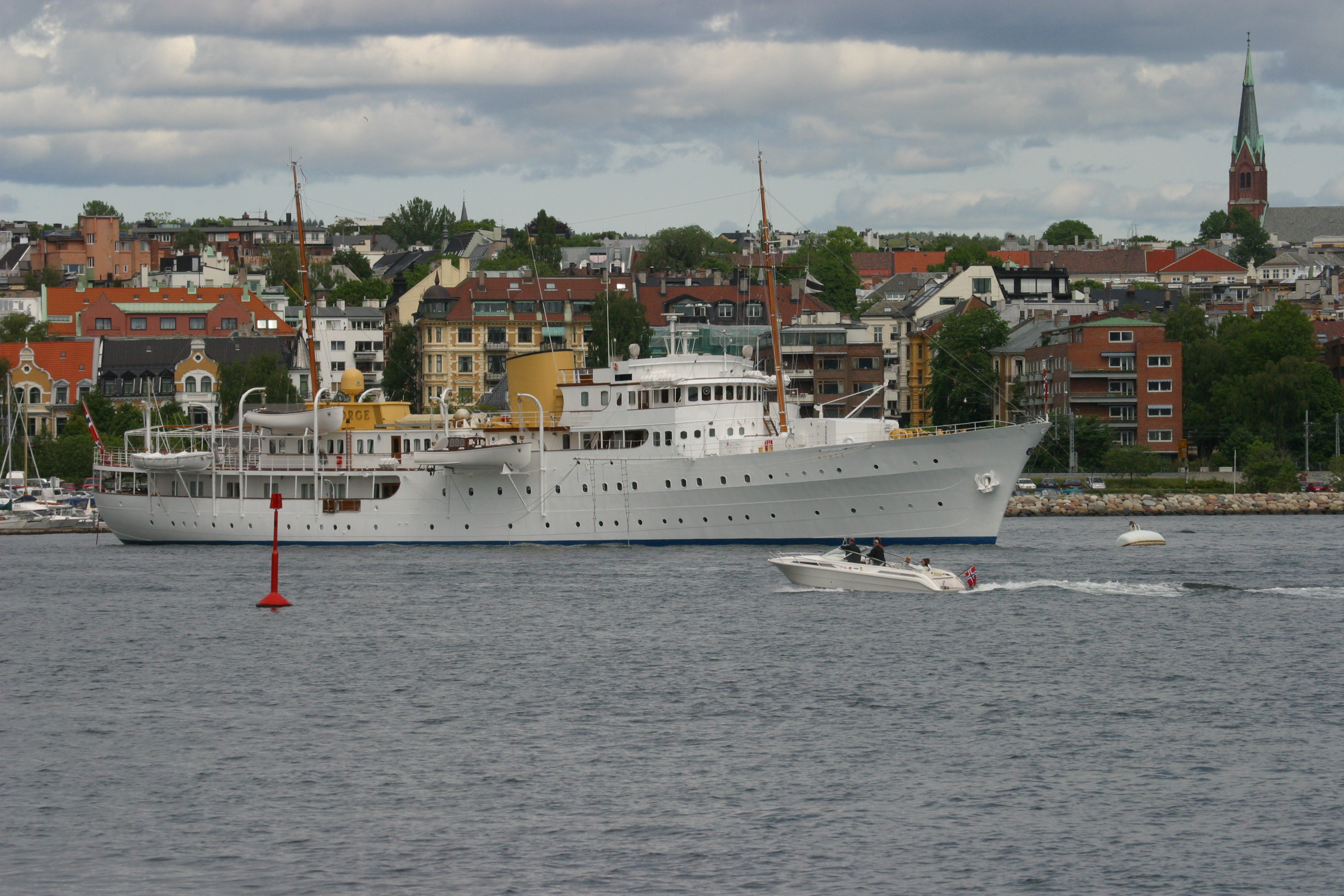 Picture of Kongeskipet "Norge"